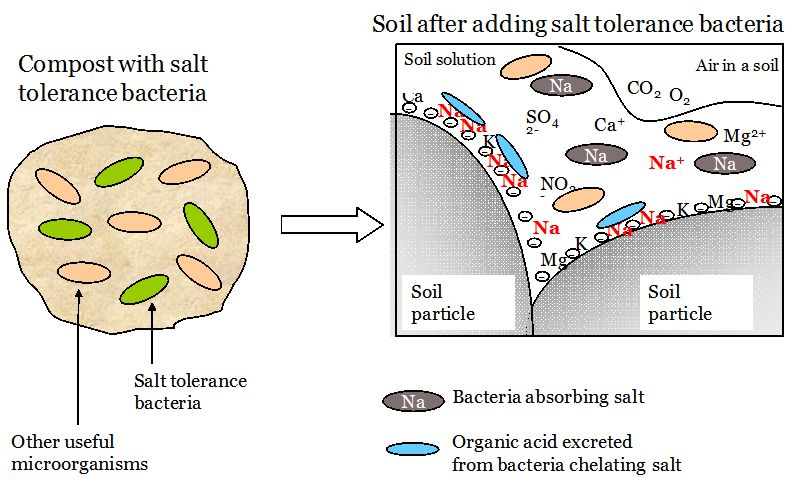 Mechanism of salt removal from tsunami affected soil by bioremediation